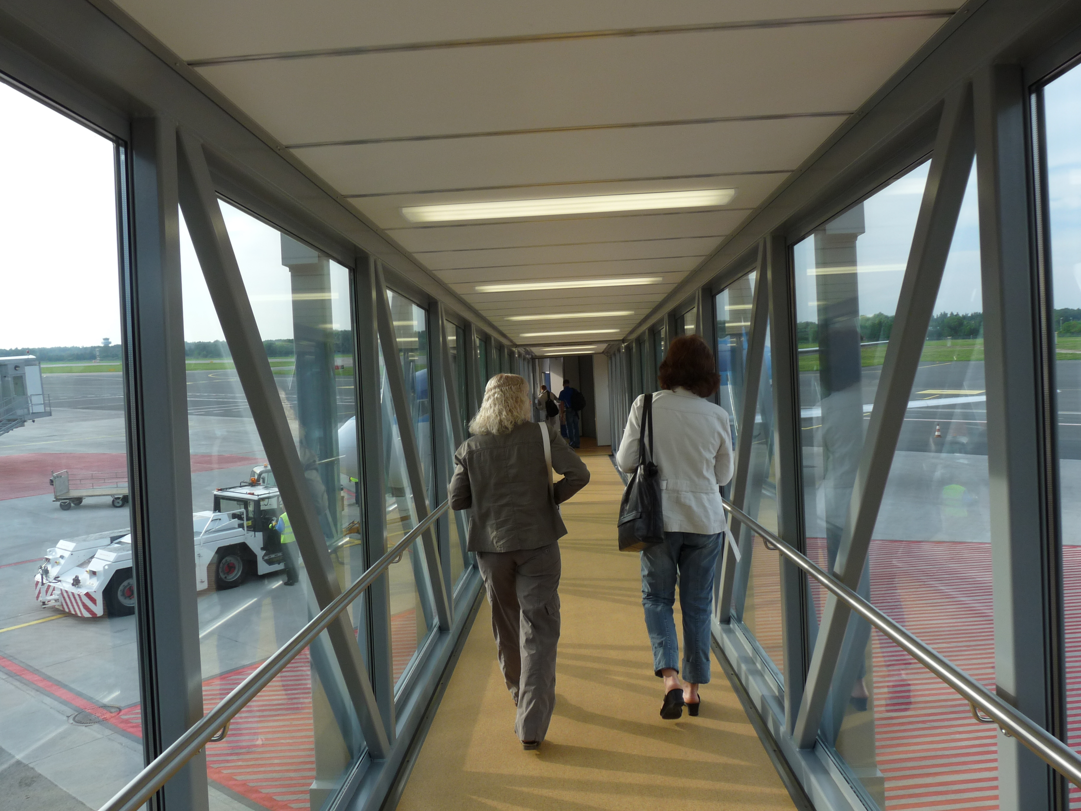 Boarding to the airplane in Tallinn Airport